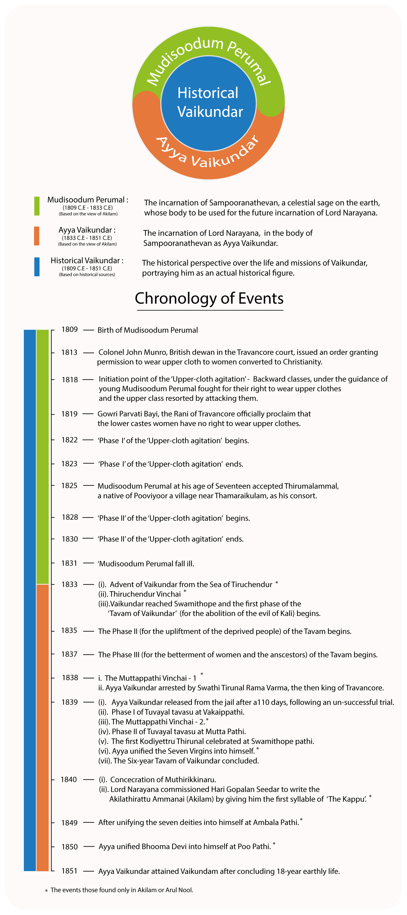 This image describes the difference between two different perspectives, one historical and another a spiritual, over a same individual.